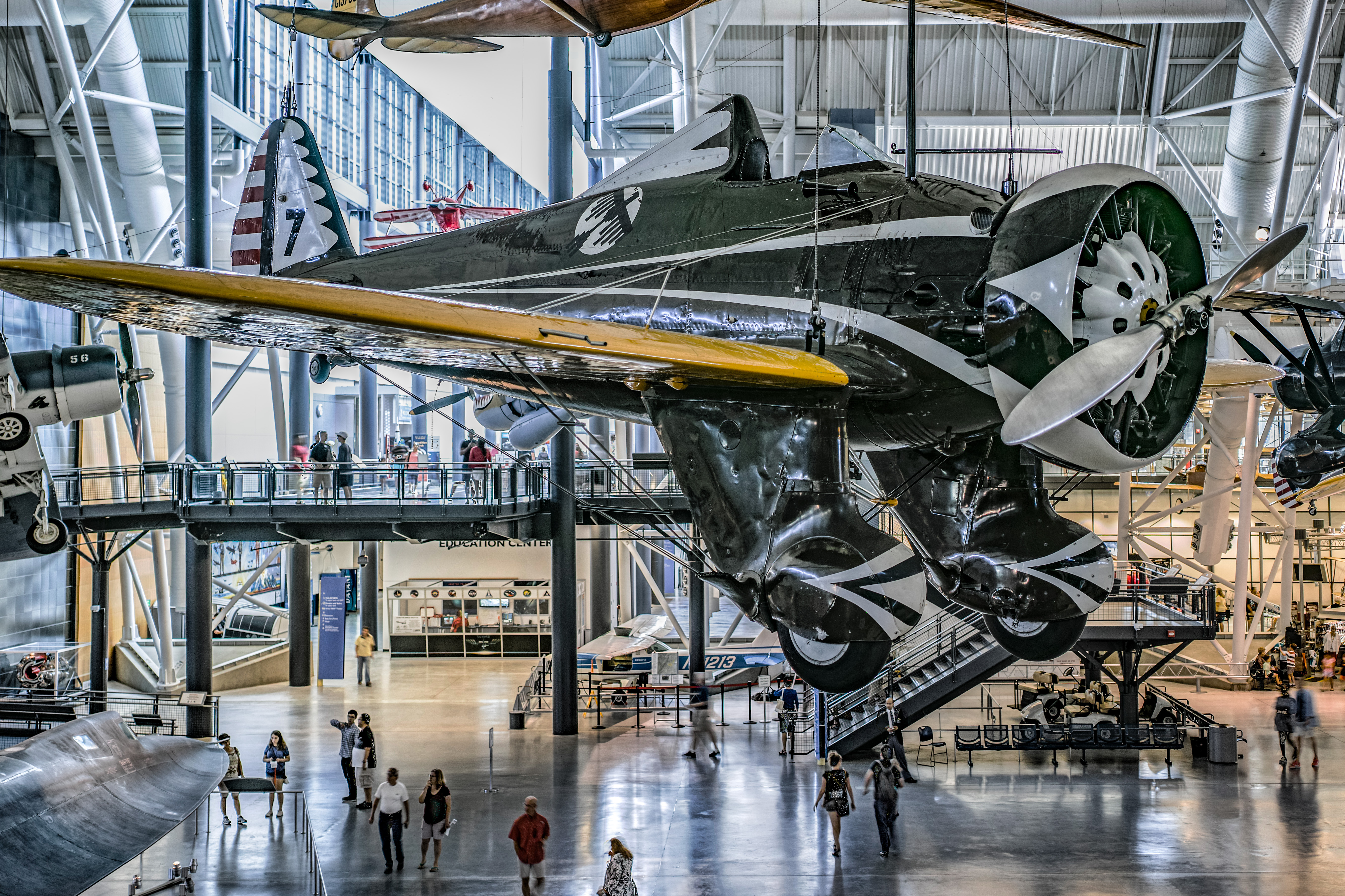 P-26A c/n 1911 serial number 33-135 is in the collection of the National Air and Space Museum. This aircraft was originally assigned to the 94th Pursuit Squadron at Selfridge Field, Michigan, and it was one of the P-26A sent to the Panama Canal Zone. It was sold to the Guatemalan Air Force on 11 May 1943, and it was flown as FAG 0816 until it was retired in 1957. It was then donated to the Smithsonian Institution. This aircraft was restored by the U.S. Air Force, and it was on display at the National Museum of the United States Air Force in the markings of the 34th Attack Squadron, through 1975 when it was returned for display at the Smithsonian Air & Space Museum.